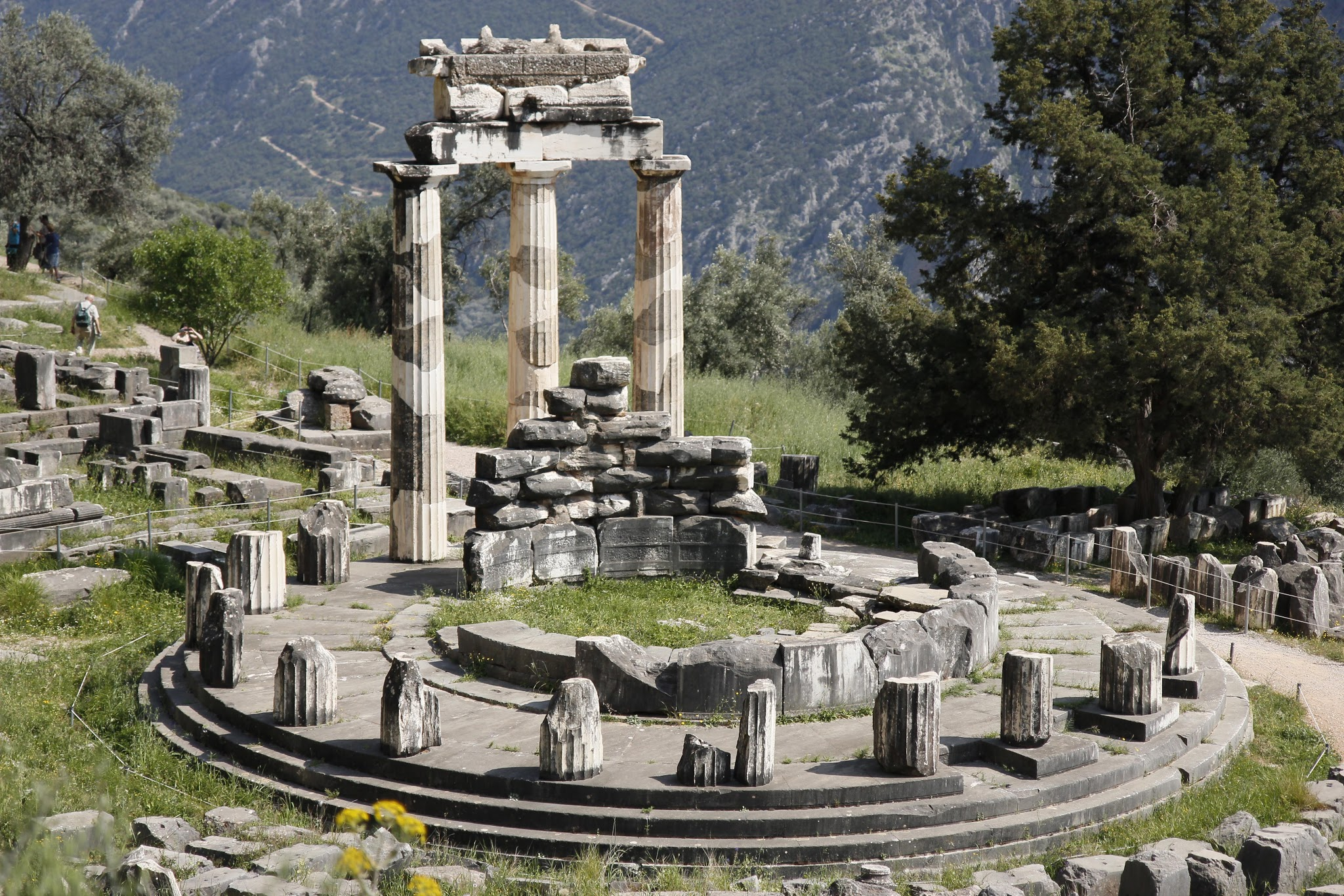 Delphe - Tholos